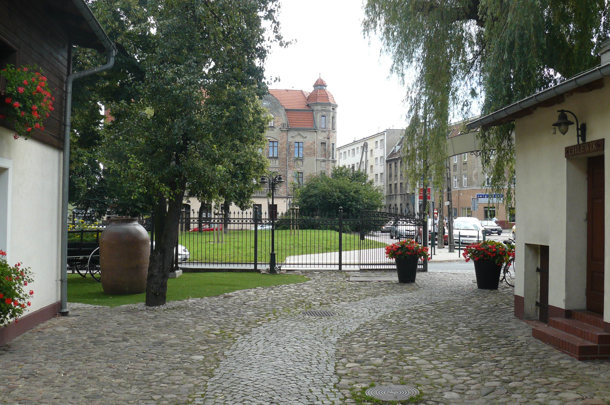 Poznań, Kościelna street. The old rural buildings. Remains of ancient settlements from Bamberg.